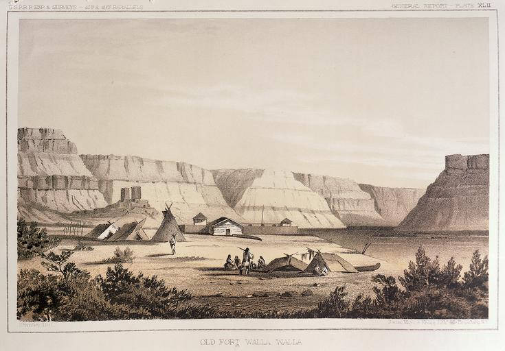 Nez Perce camp outside walls of Old Fort Walla Walla on the Columbia River, Washington in engraving made 1853